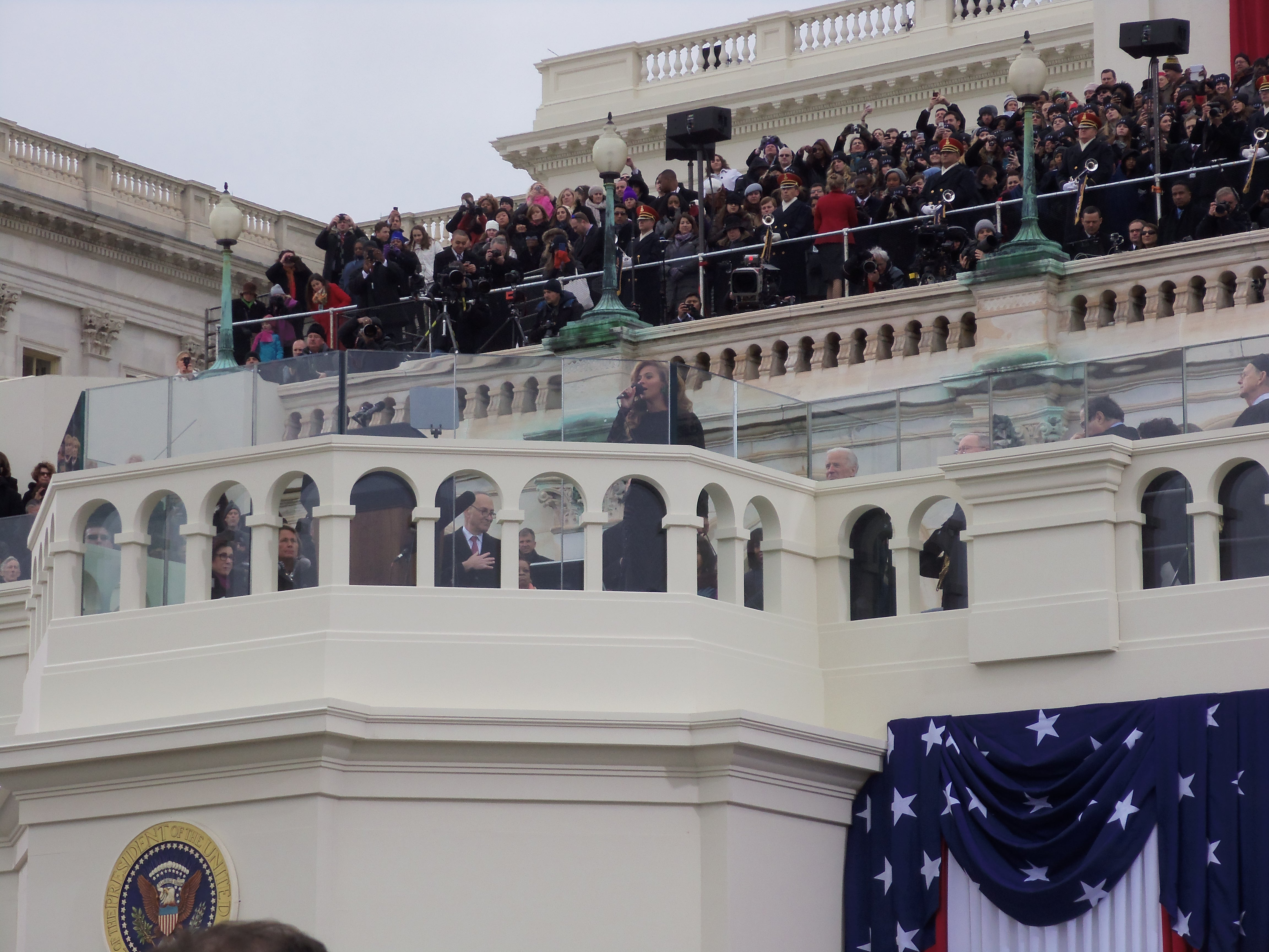 2013 Inauguration of President Barack Obama. View from the lower platform on the West Front of the United States Capitol. Beyonce sings the National Anthem.